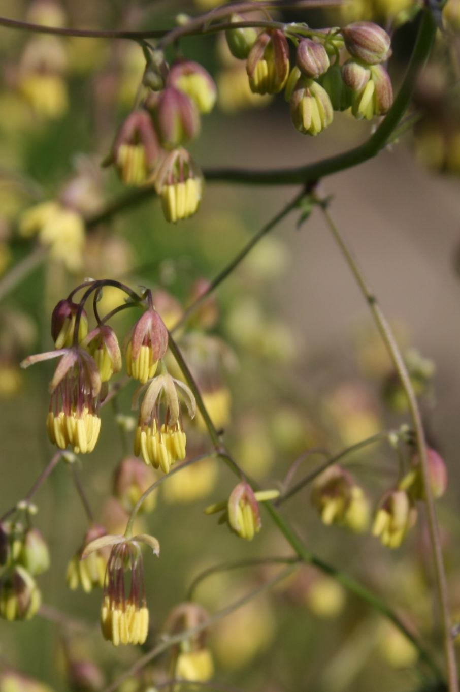 'Thalictrum flavum: Flowers.